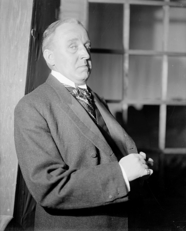 Photograph of Dudley Digges as Boss Mangan in the original Broadway production of Heartbreak House (1920)